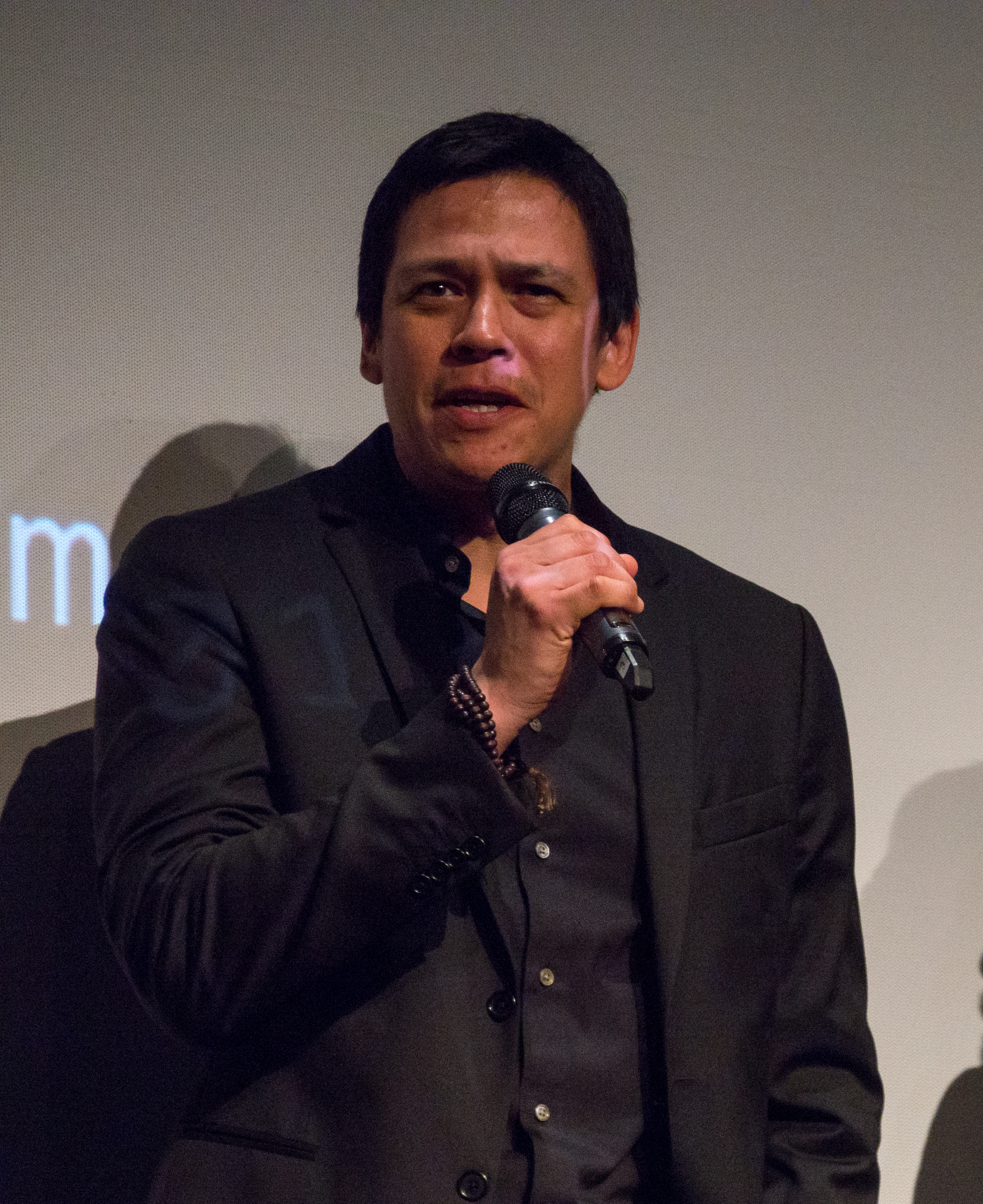 Chaske Spencer during a discussion following the U.S. premiere of Woman Walks Ahead at the 2018 Tribeca Film Festival.